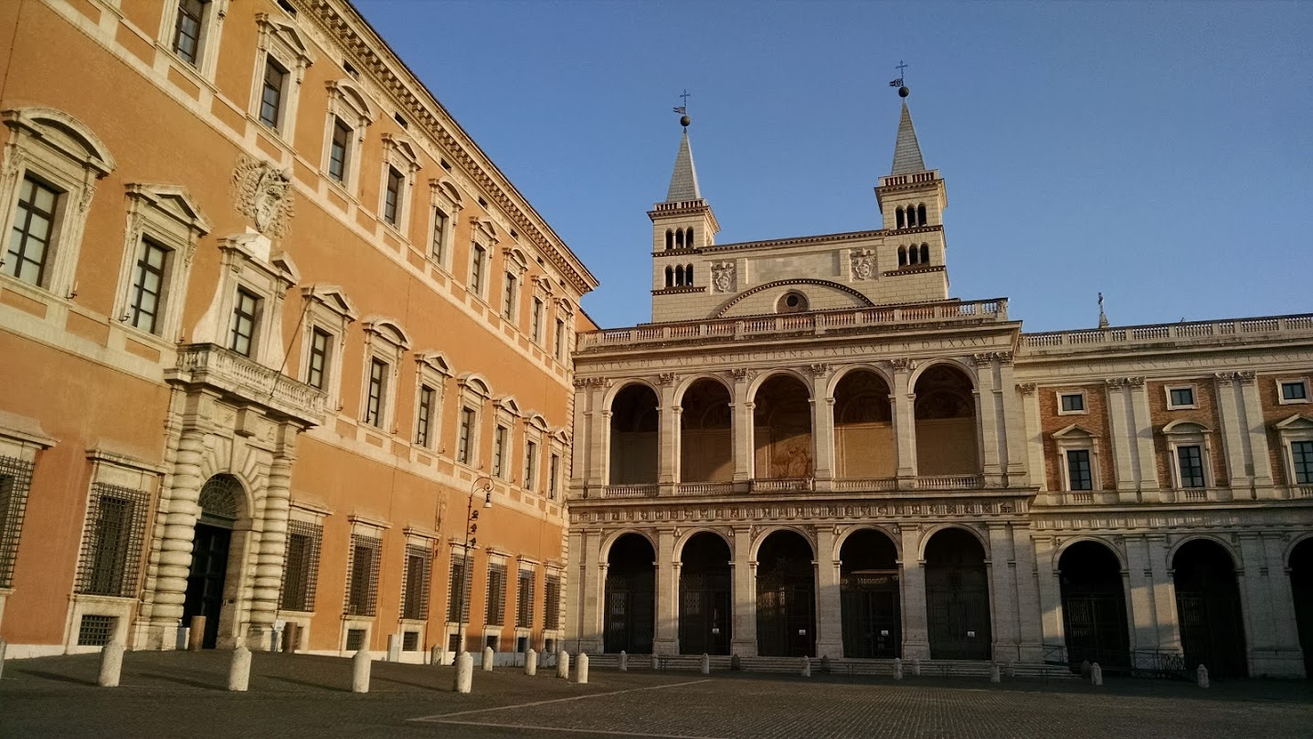 Part of the Basilica of St. John Lateran in Rome, facade facing the Lateran obelisk in the square John Paul II (portion of Piazza San Giovanni in Laterano).